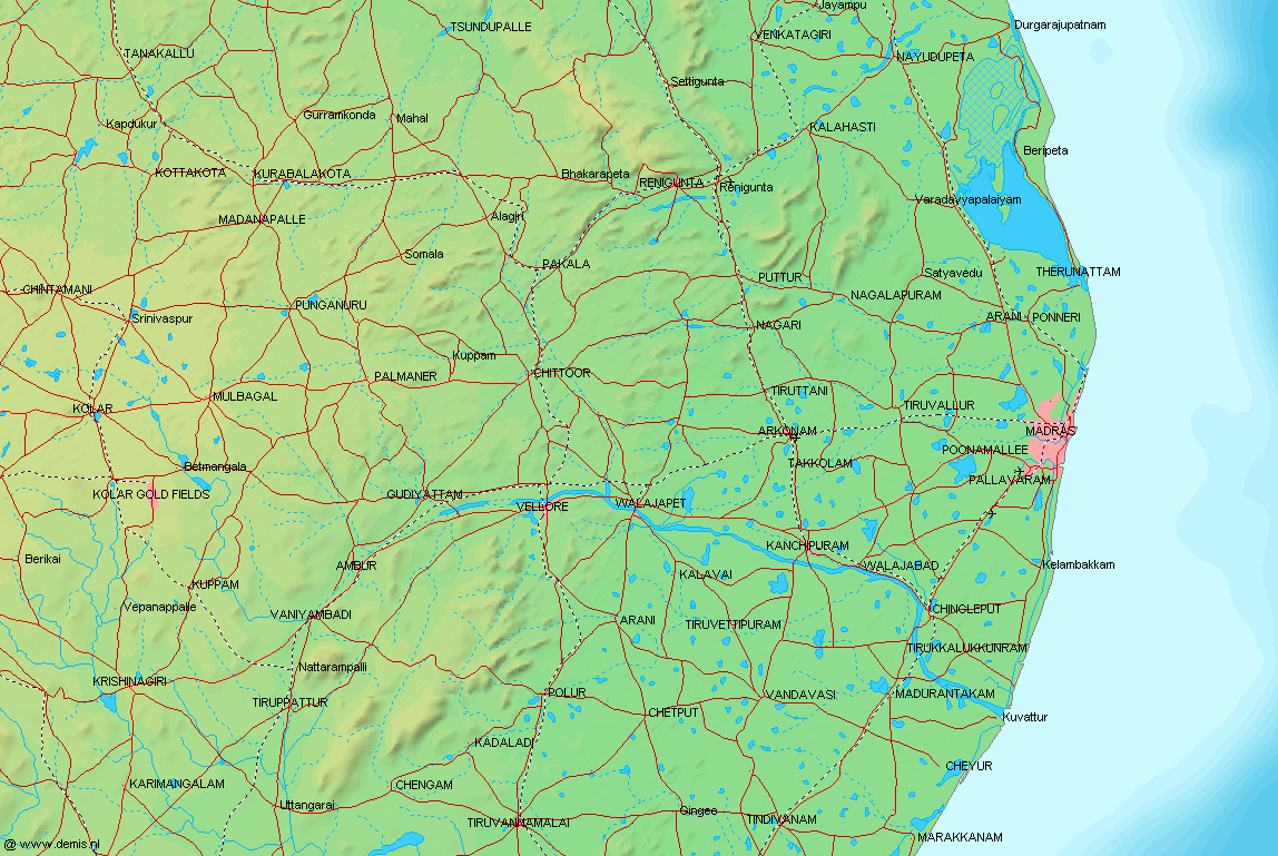 Surroundings of Madras (Chennai), India. Originated from Public Domain.